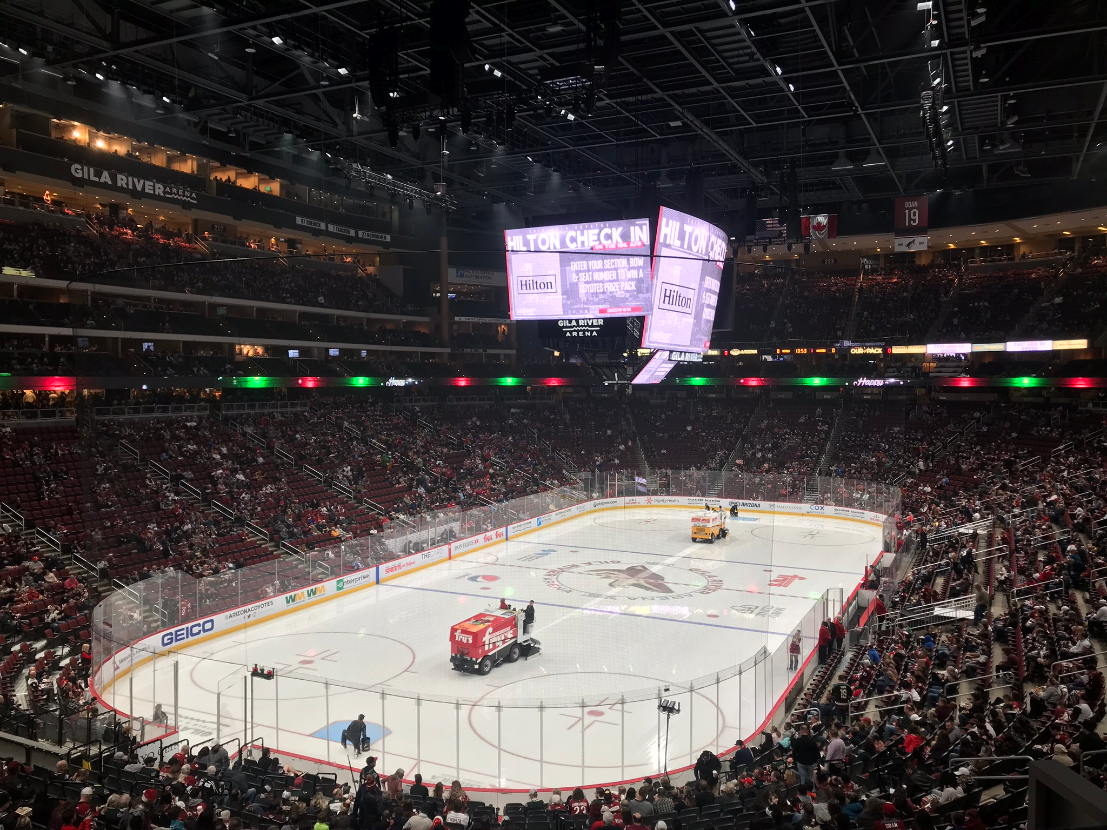 Gila River Arena Pregame December 2019 AZ Coyotes vs NJ Devils